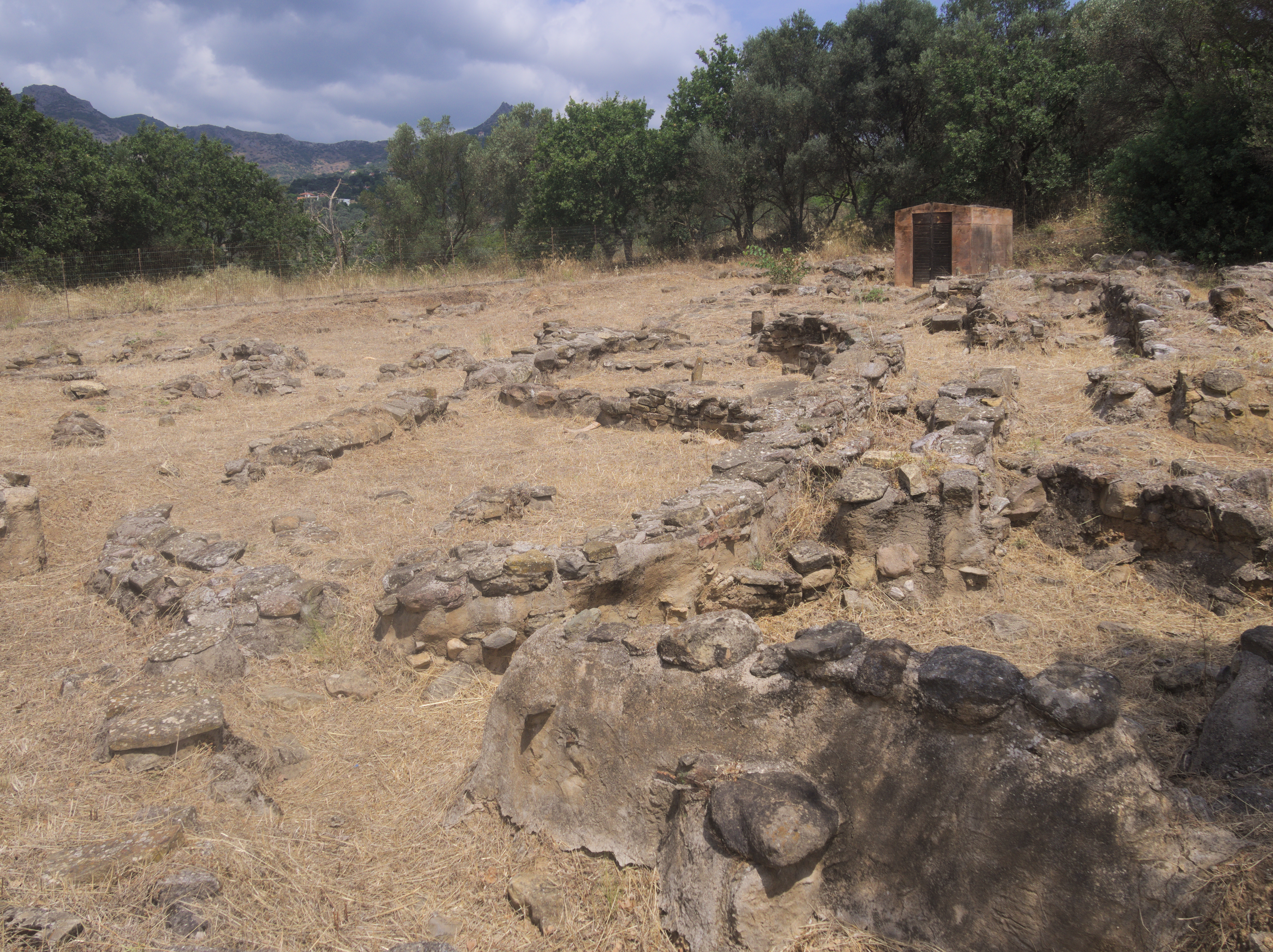 The archaeological site atop the hill Viglatouri, near Oxylithos, Kymi-Aliveri municipality, Euboea, Greece. Excavated in 1984-1994, it is believed to be the location of ancient Kymi during the Geometric Age, one of the cities of Euboea that were involved in the foundation of the first Greek colony on the mainland of Italy, Cumae. The excavations uncovered a city with houses and roads. The most prominent building of the site is the oval sanctuary (middle-left at the photo).